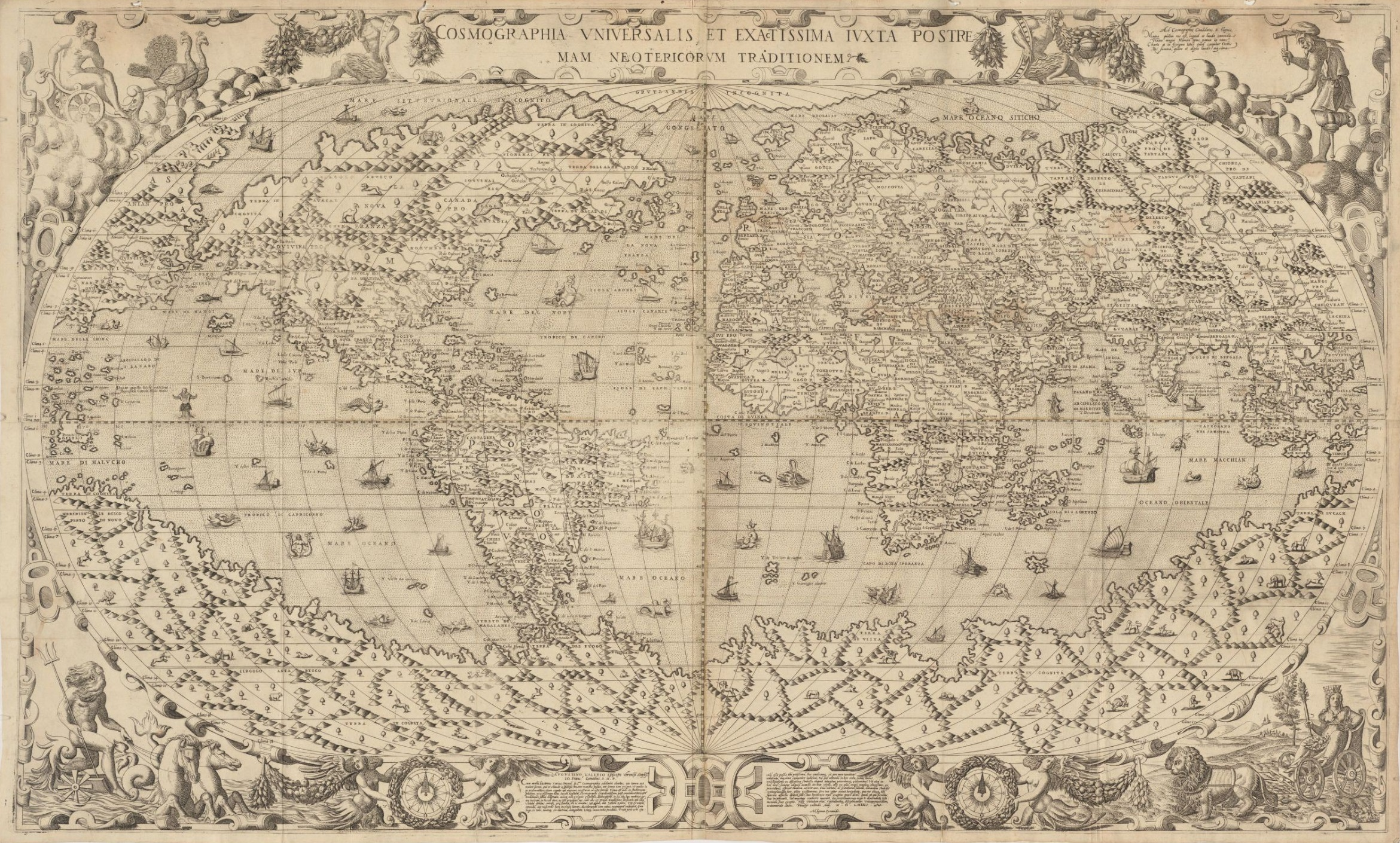 Map by Giacomo Gastaldi (1500-1565/66), Cosmographia universale et exactissima, 1569. 51-2493, Houghton Library, Harvard Unviersity